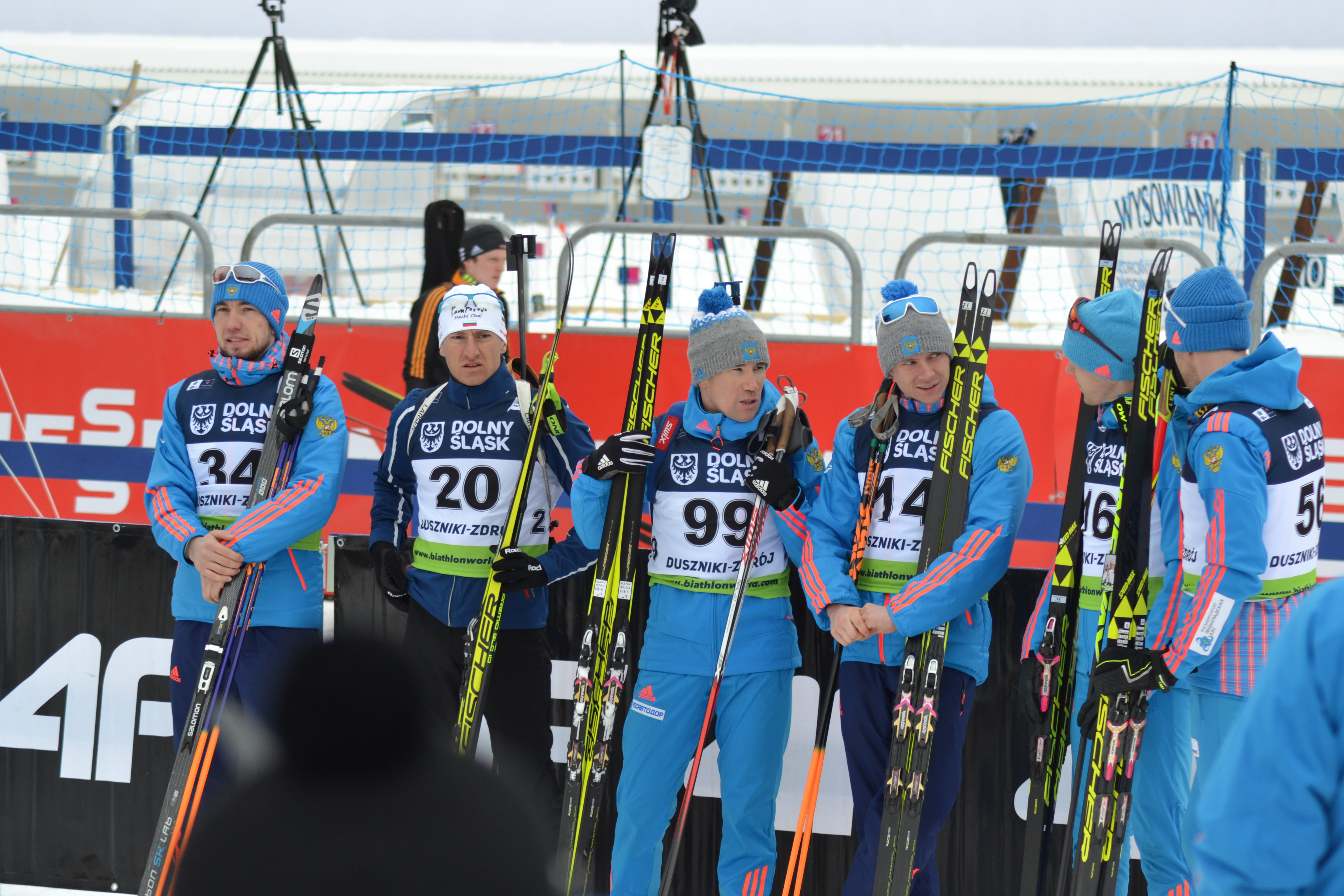 Open European Championships Biathlon 2017, Individual Men's race, held on January 25th.